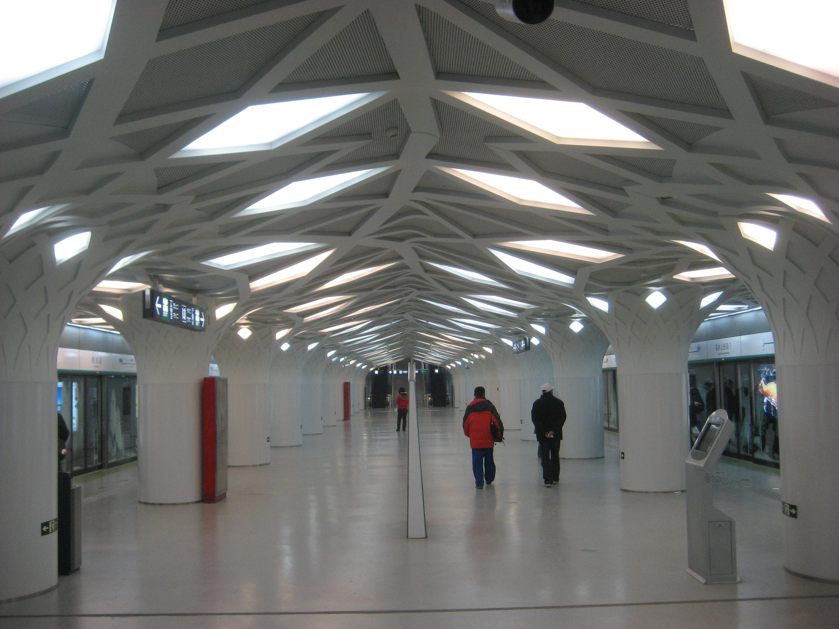 South Gate of Forest Park , Line 8 , Beijing Subway . Tree-like pillars .